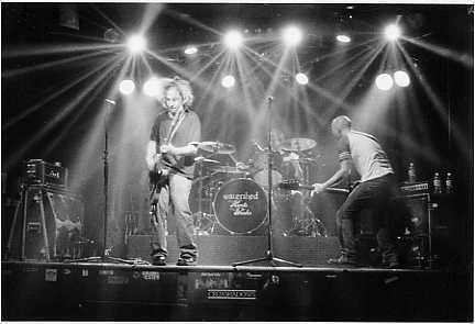 Watershed performing on November 12, 2002 in Minneapolis, MN.